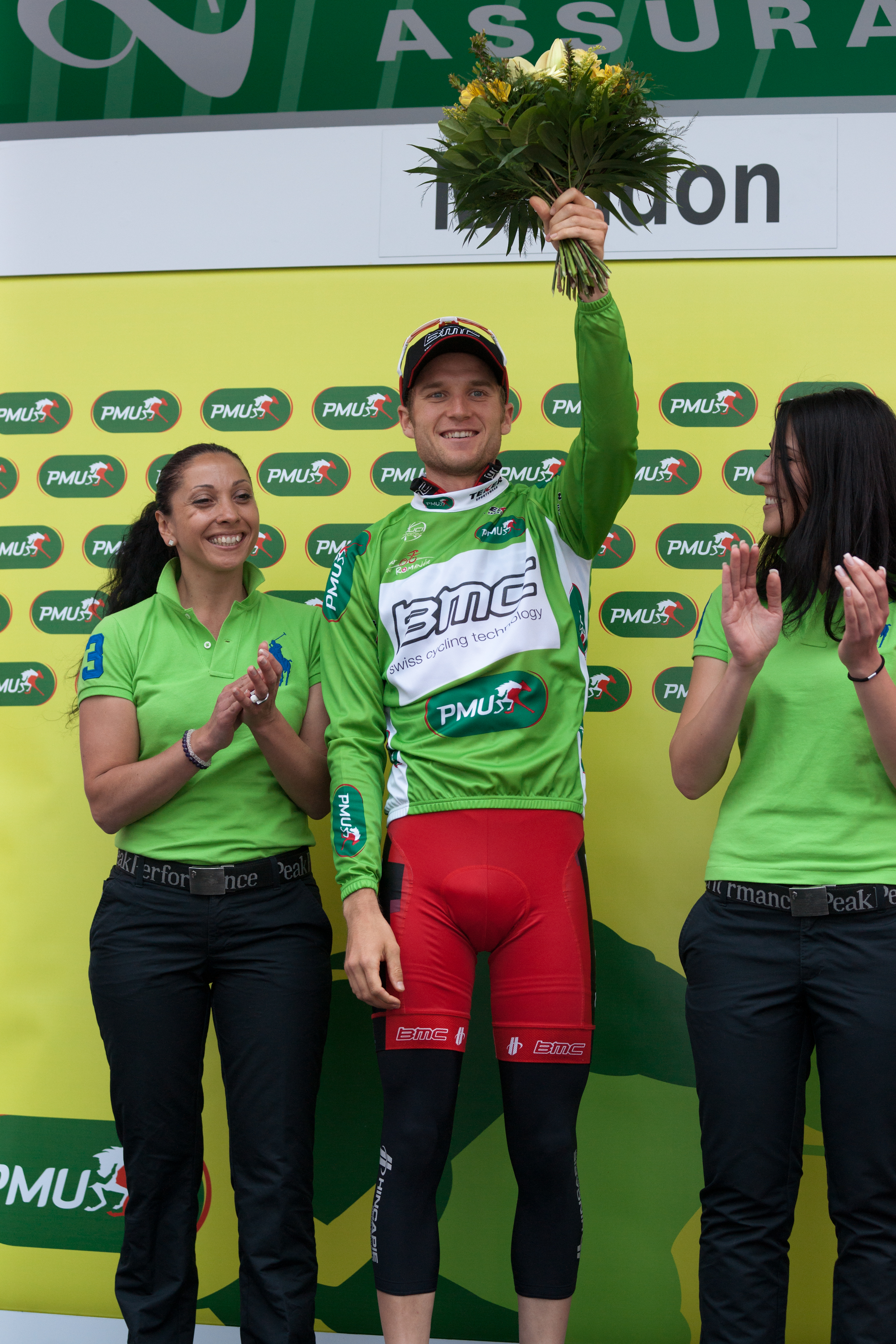 Chad Beyer on the podium of the 3rd stage of the Tour de Romandie 2010.